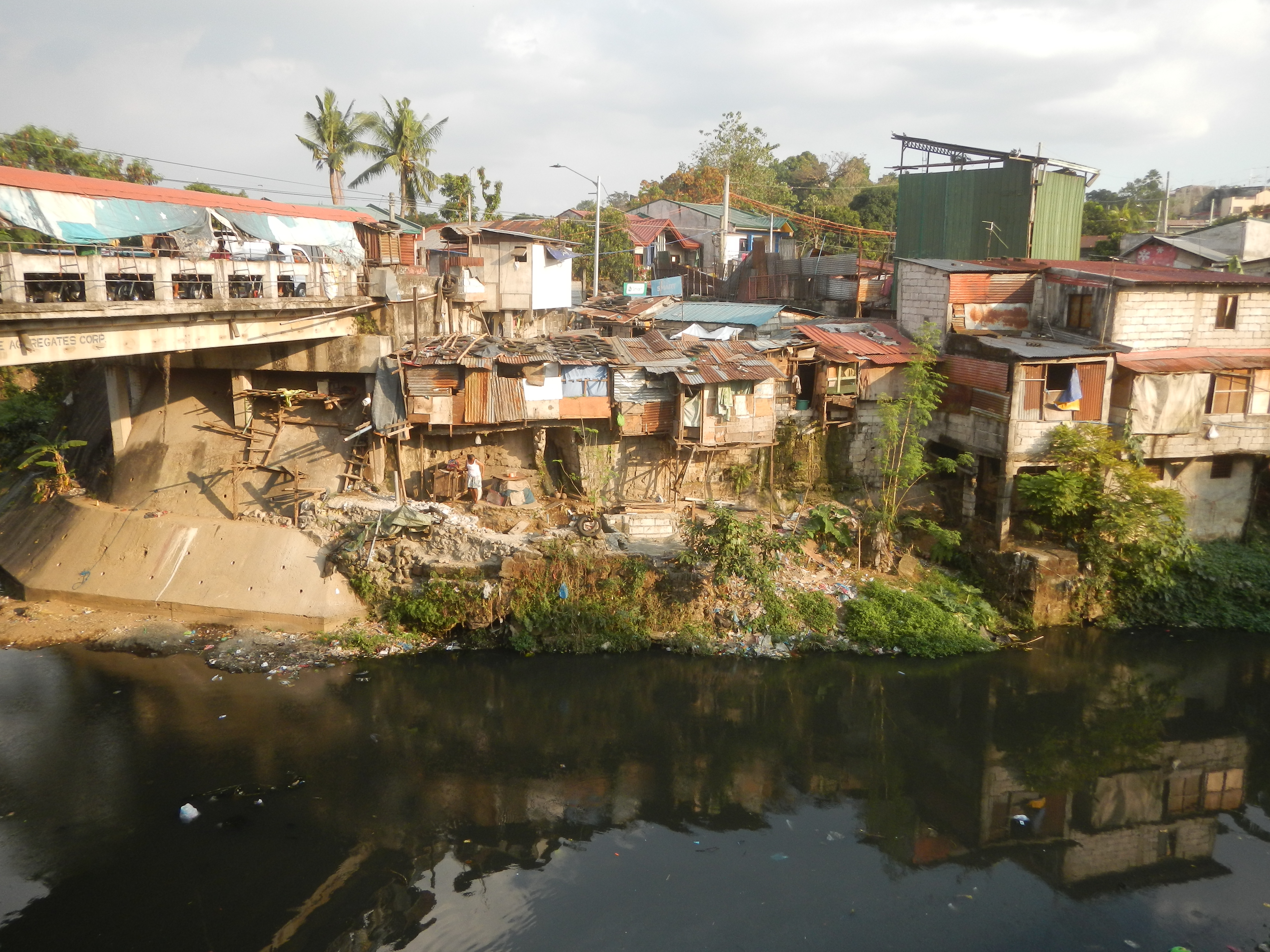 San Jose del Monte City, Bulacan Boundary & Welcome Arch-Caloocan City (Bridge and River in Muzon) in Bagong Silang Barangays of Caloocan, Zone 15, Bagong Silang, Caloocan City and San Jose del Monte City, a suburban city in the province of Bulacan, Philippines, Barangay Muzon, 14°48'7"N 121°1'45"E San Jose del Monte City (Note: Judge Florentino Floro, the owner, to repeat, Donor Florentino Floro of all these photos hereby donate gratuitously, freely and unconditionally all these photos to and for Wikimedia Commons, exclusively, for public use of the public domain, and again without any condition whatsoever).